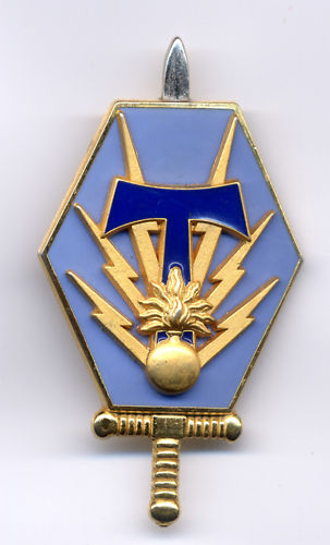 Brigade insignia of the communications and command support (France).